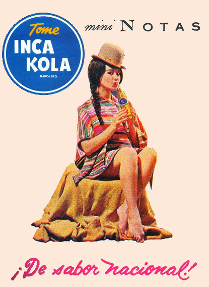 Vintage advertisement for Inca Kola.